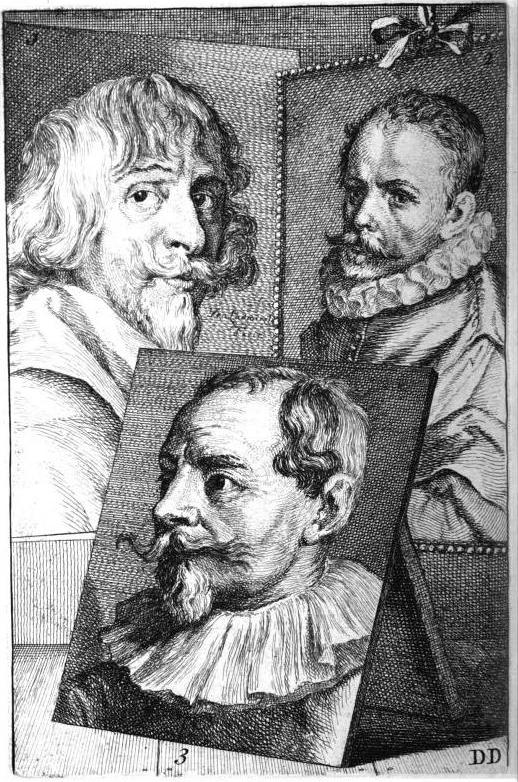 DD p332 Hendrik van STeenwyk - Jacobus of Jaques de Geyn - Sebastiaan Franks